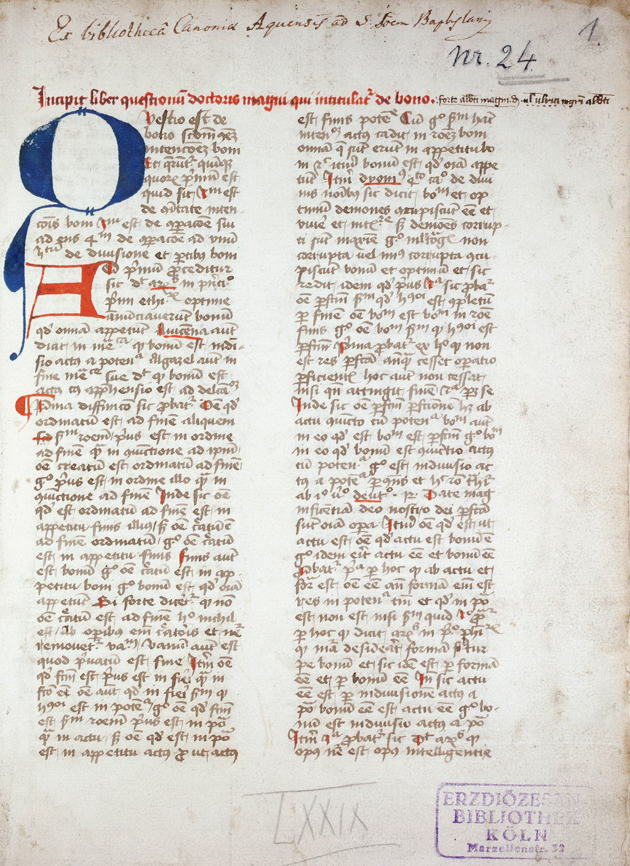 Albertus Magnus, De Bono. Folium 1r. Cologne, Library of the Dome, Codex 1024.